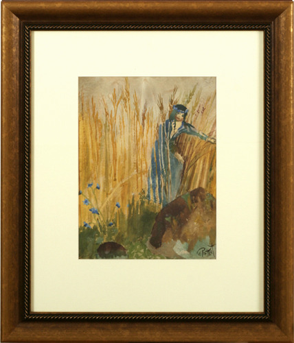 Cornflower (island girl). Water color on paper. 29.5 x 22.8 cm